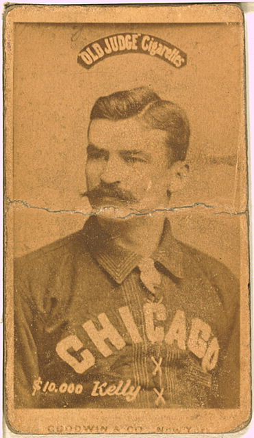 King Kelly, Chicago White Stockings, baseball card portrait.